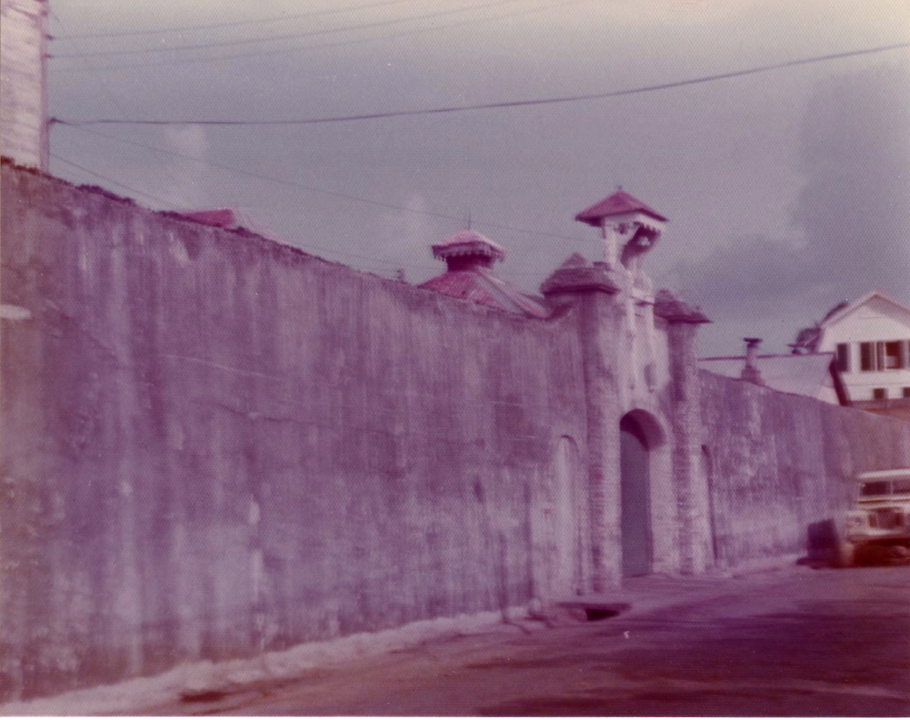 Belize City, 1975. Exterior view of prison. Decades later this place would become the Museum of Belize